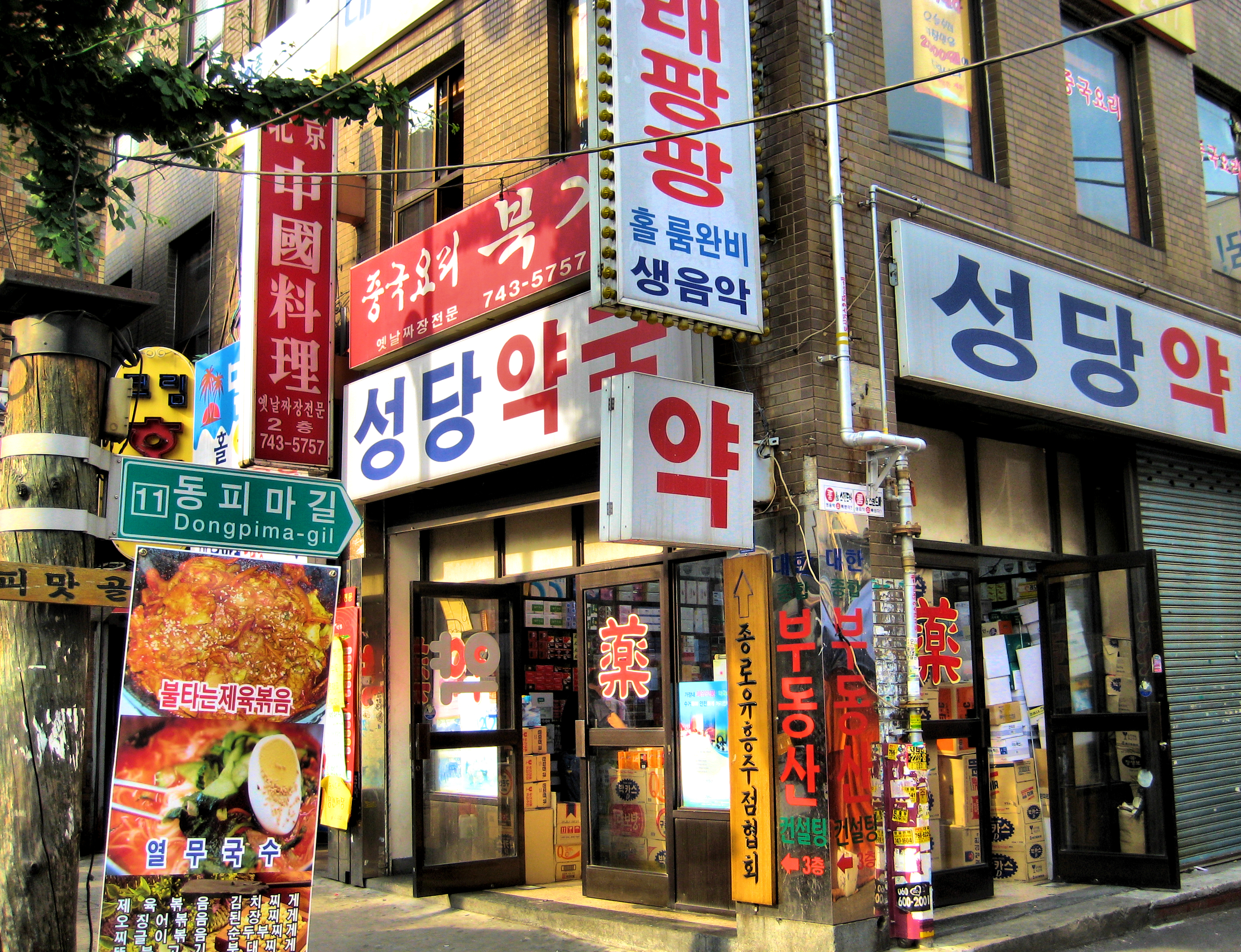 Busy streetcorner